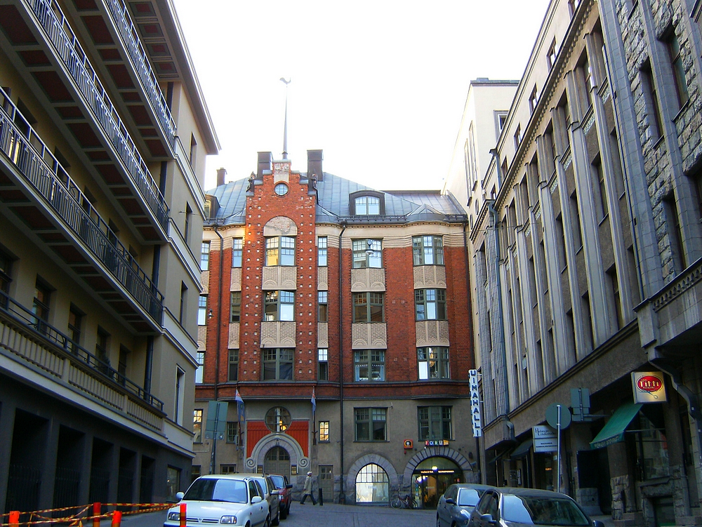 Yrjönkatu, Helsinki, Finland, Hotelli Torni on the left, entrance to shopping mall "Forum" straight forward